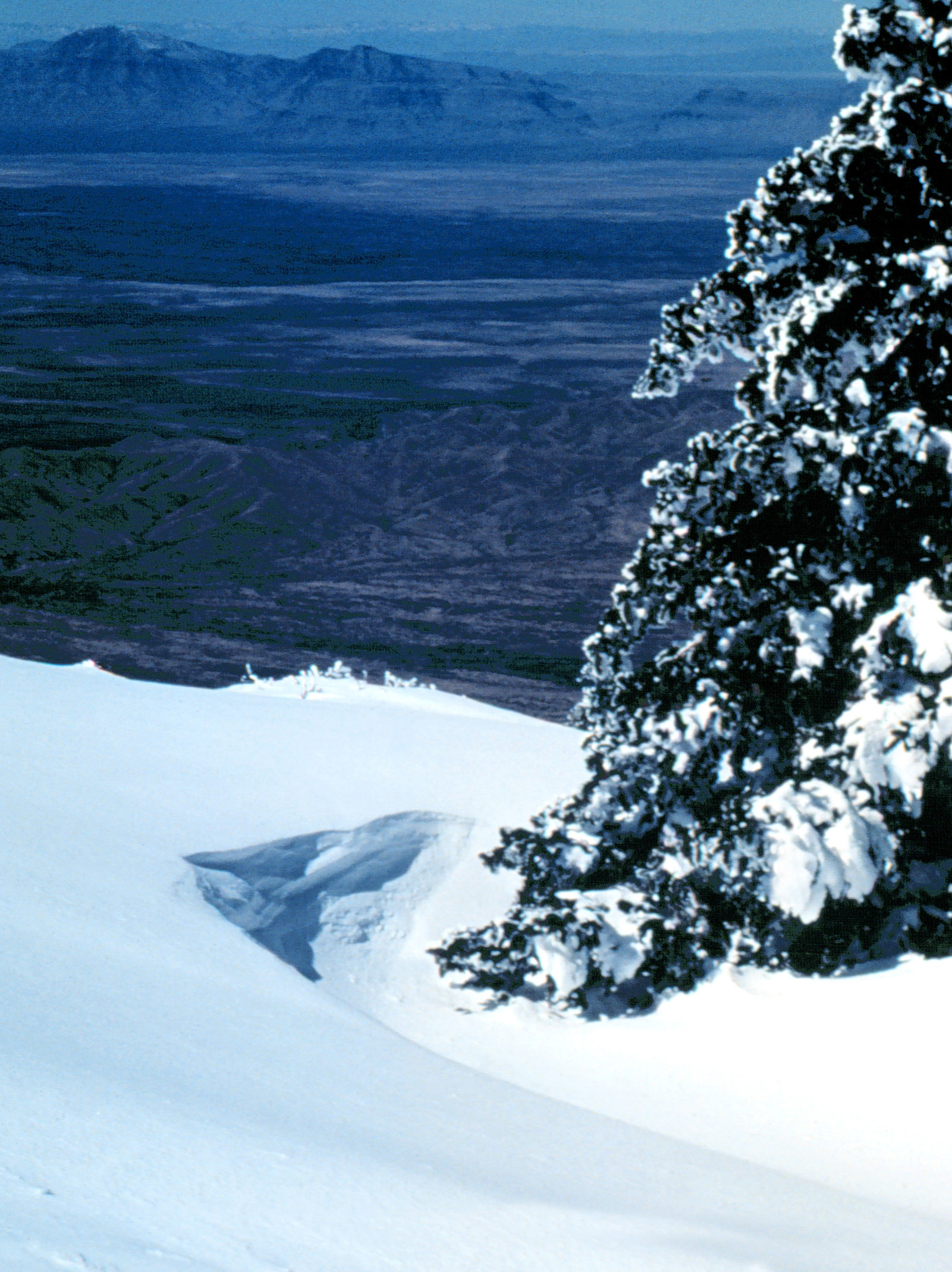 View of New Mexico valleys from the Sierra Blanca mountains in New Mexico, United States in winter